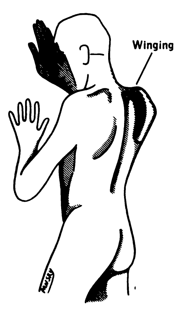 Anatomical illustration of the human nervous system from the 1960 book A functional approach to neuroanatomy